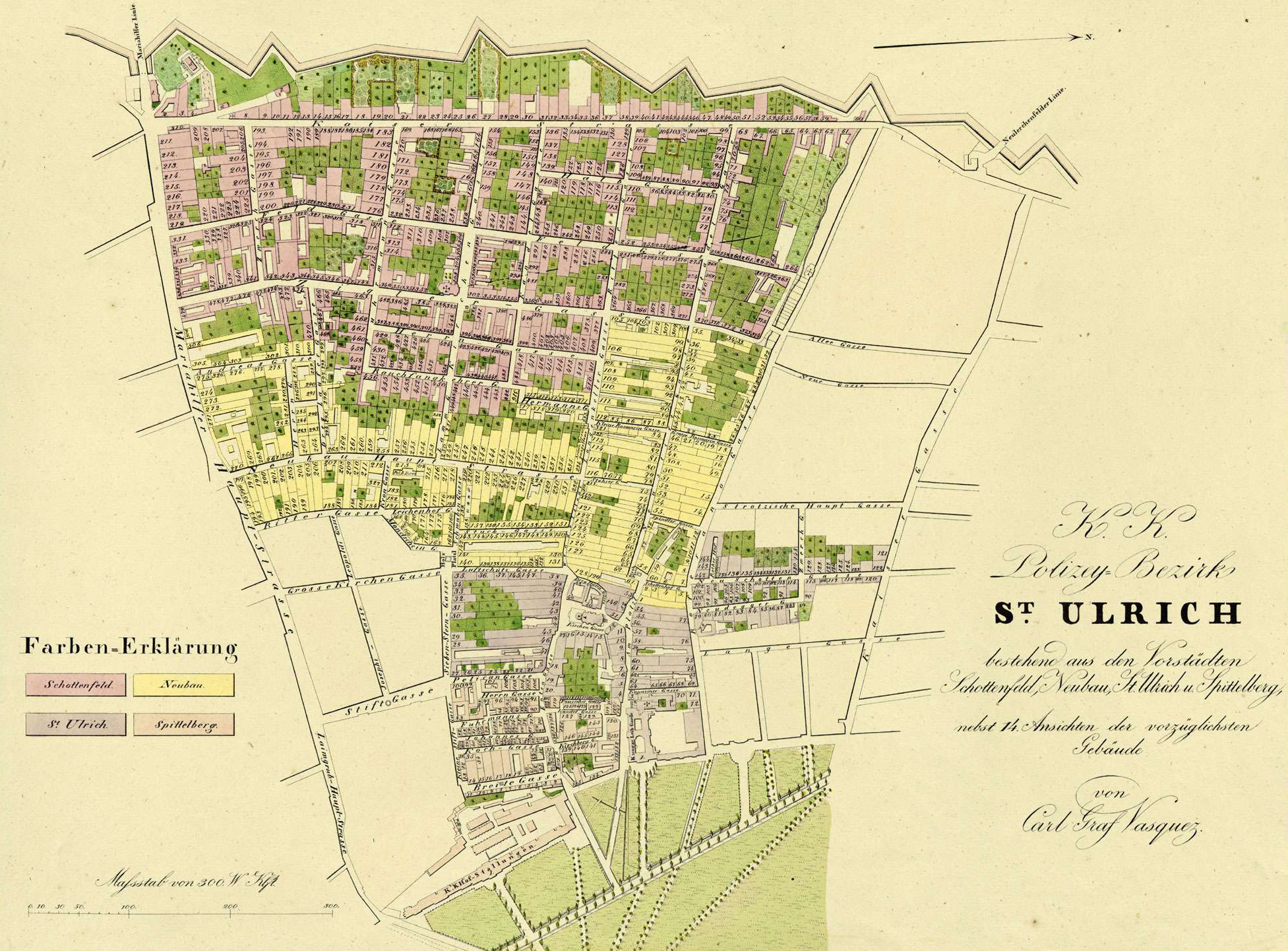 Map of Vienna / Sankt Ulrich, approx. 1830